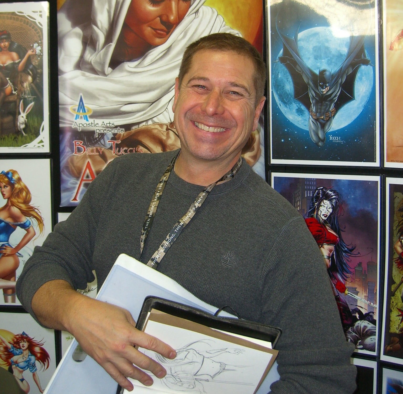 Comics creator Billy Tucci on Day 2 of the 2012 New York Comic Con, Friday October 12, 2012 at the Jacob K. Javits Convention Center in Manhattan. This photo was created by Luigi Novi. It is not in the public domain, and use of this file outside of the licensing terms is a copyright violation.